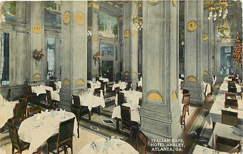 Hotel Ansley Postcard Italian Cafe